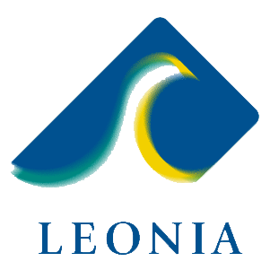 Logo of Leonia, a former Finnish Bank that existed from year 1998 to year 2001 turning into Sampo Pankki. Logo made from an example of a picture in company's annual report 1998. Designeg by Ilmo Valtonen[1]